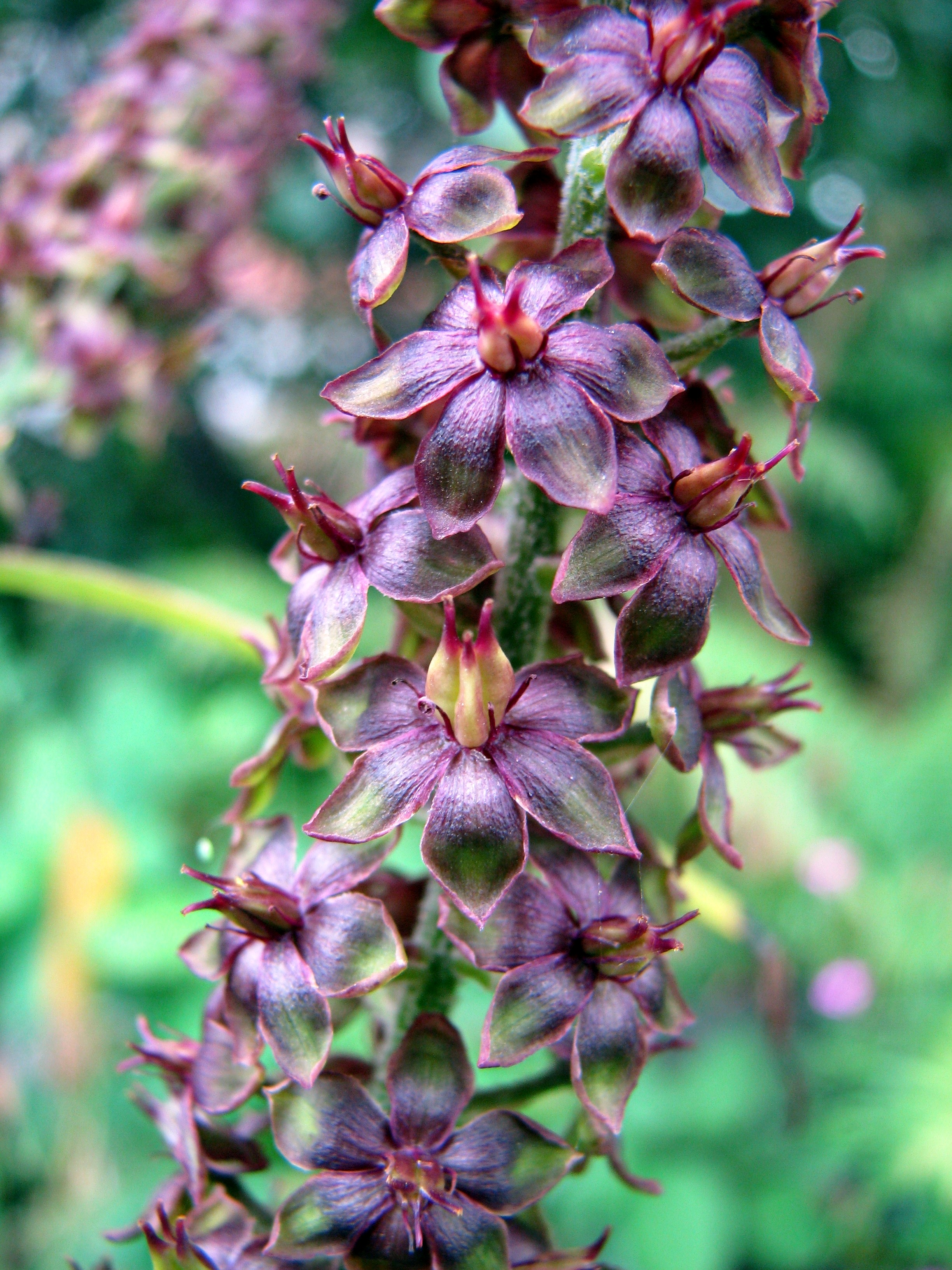 False hellebore (Veratrum nigrum), flowering plant, cultivated in Wrocław University Botanical Garden, Wrocław, Poland.